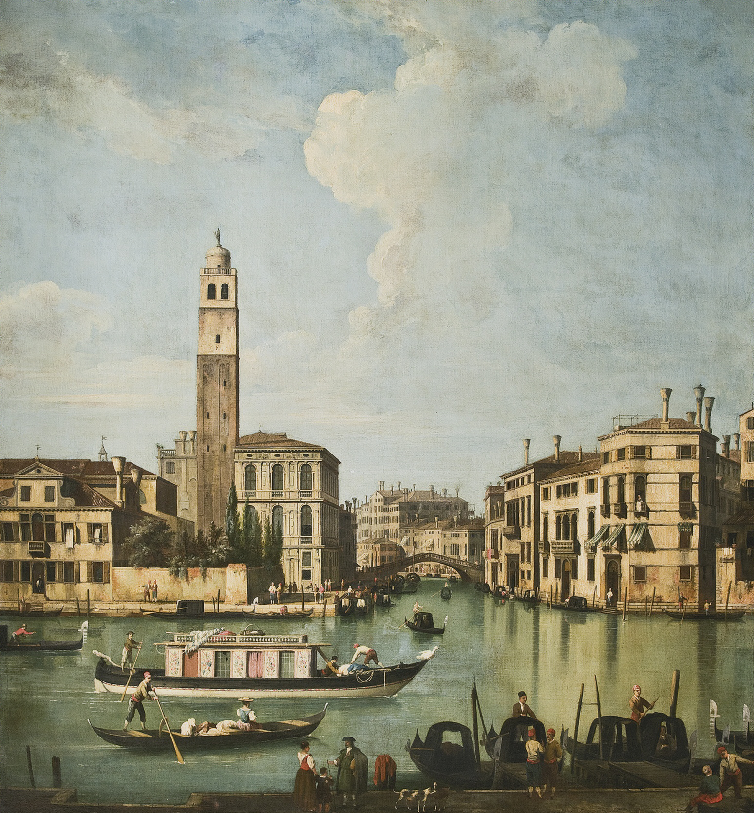 A View of the Canal Grande with San Geremia, Palazzo Labia and the Entrance to the Cannareggio.